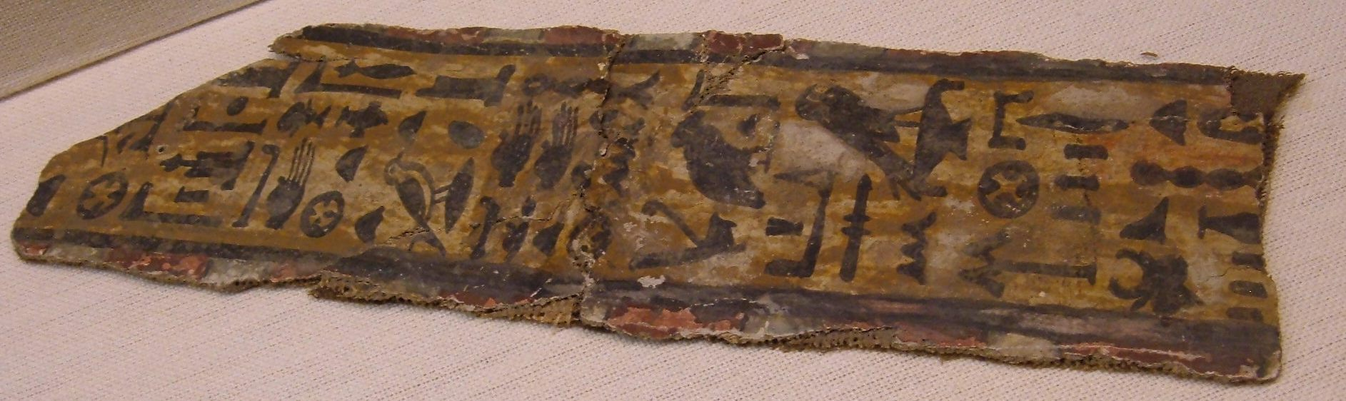 Cartonnage fragment from a coffin (New Kingdom) on display at the Rosicrucian Egyptian Museum in San Jose, California. RC 149